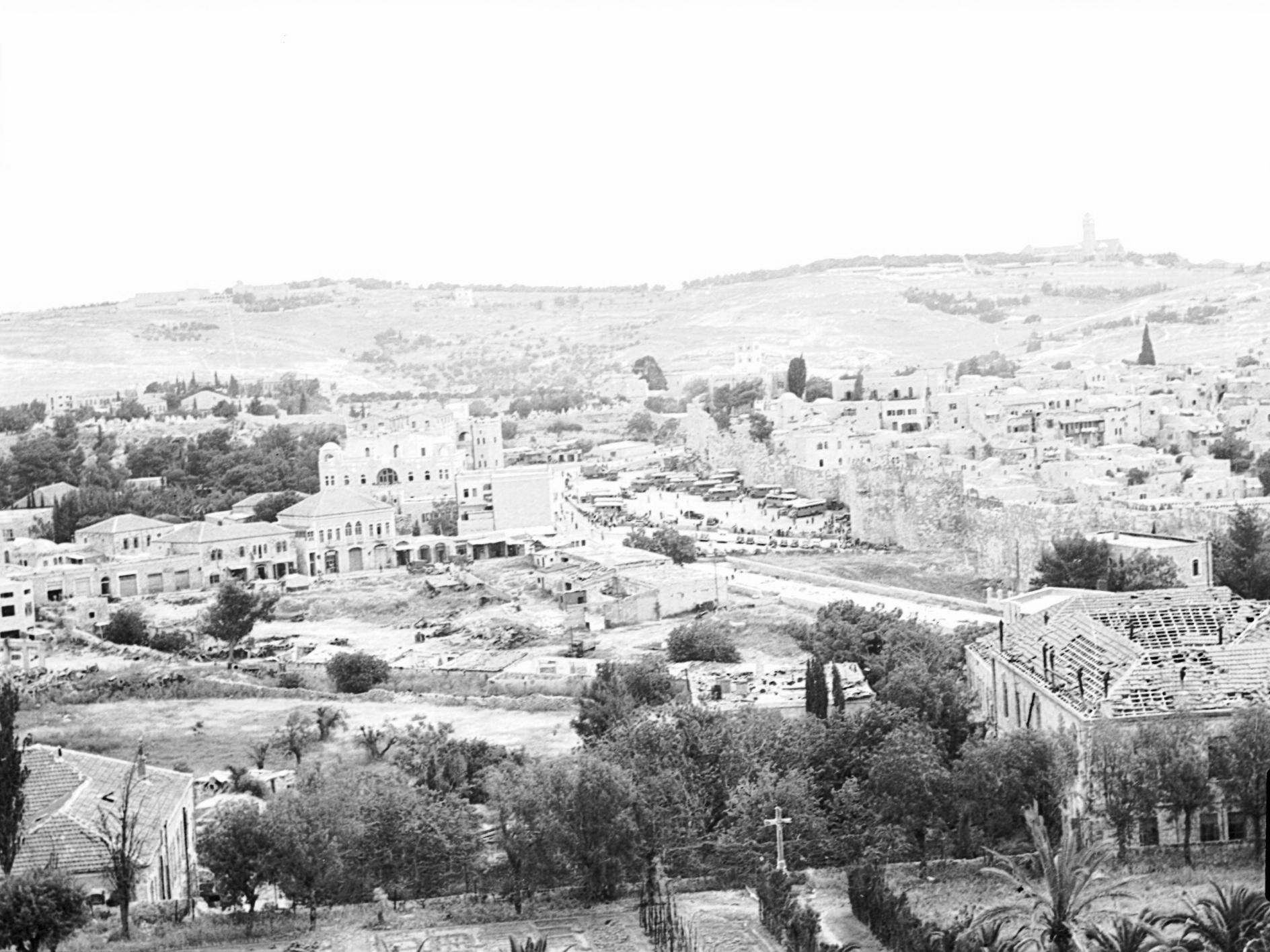 Cities in Israel : Jerusalem, Morasha neighborhood, Notre-Dame de France